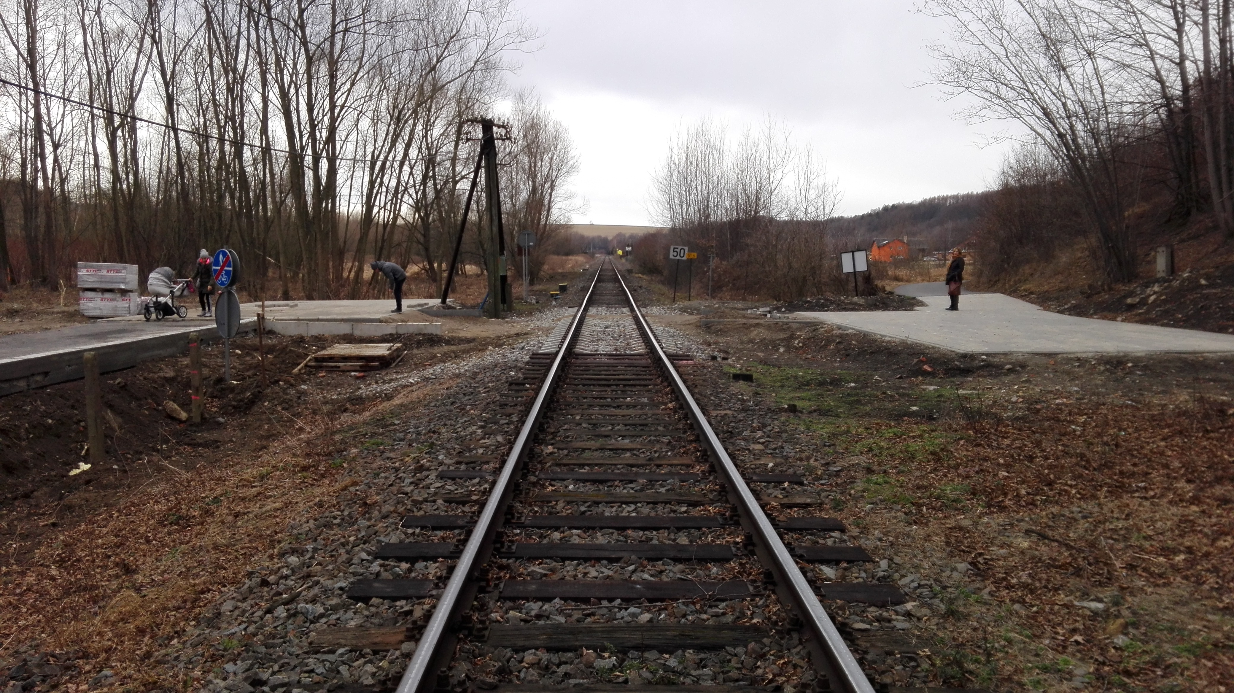 Railway Głuchołazy-Mikulovice border crossing